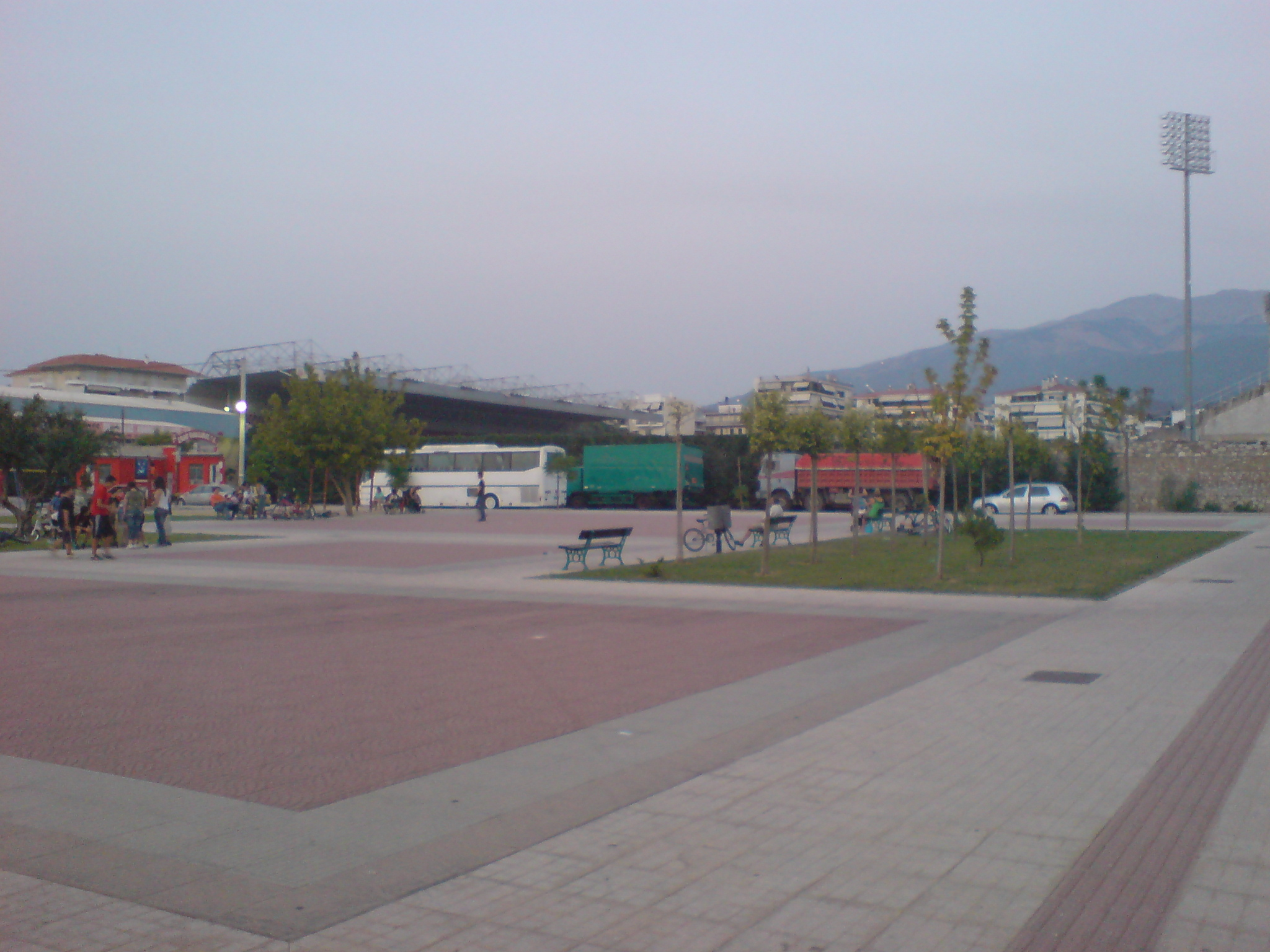 Picture of the Kostas Davourlis Stadium